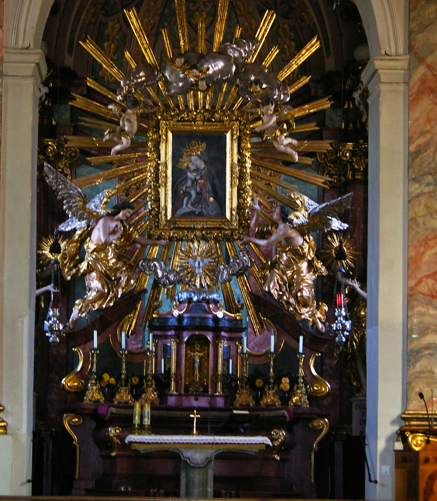 altar Maria Bühel